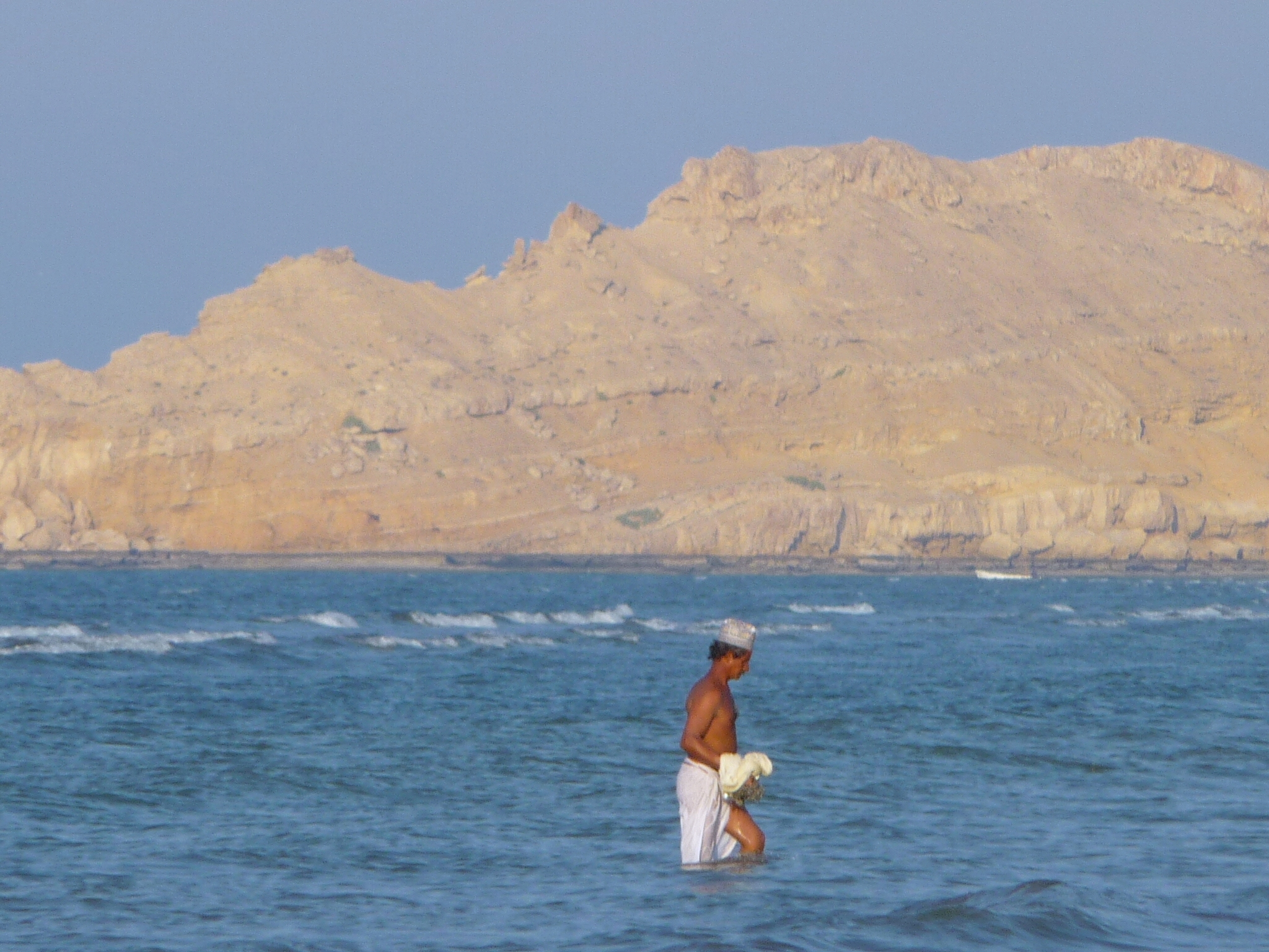 Omani fisherman in As-Sawadi (Muscat, Oman).